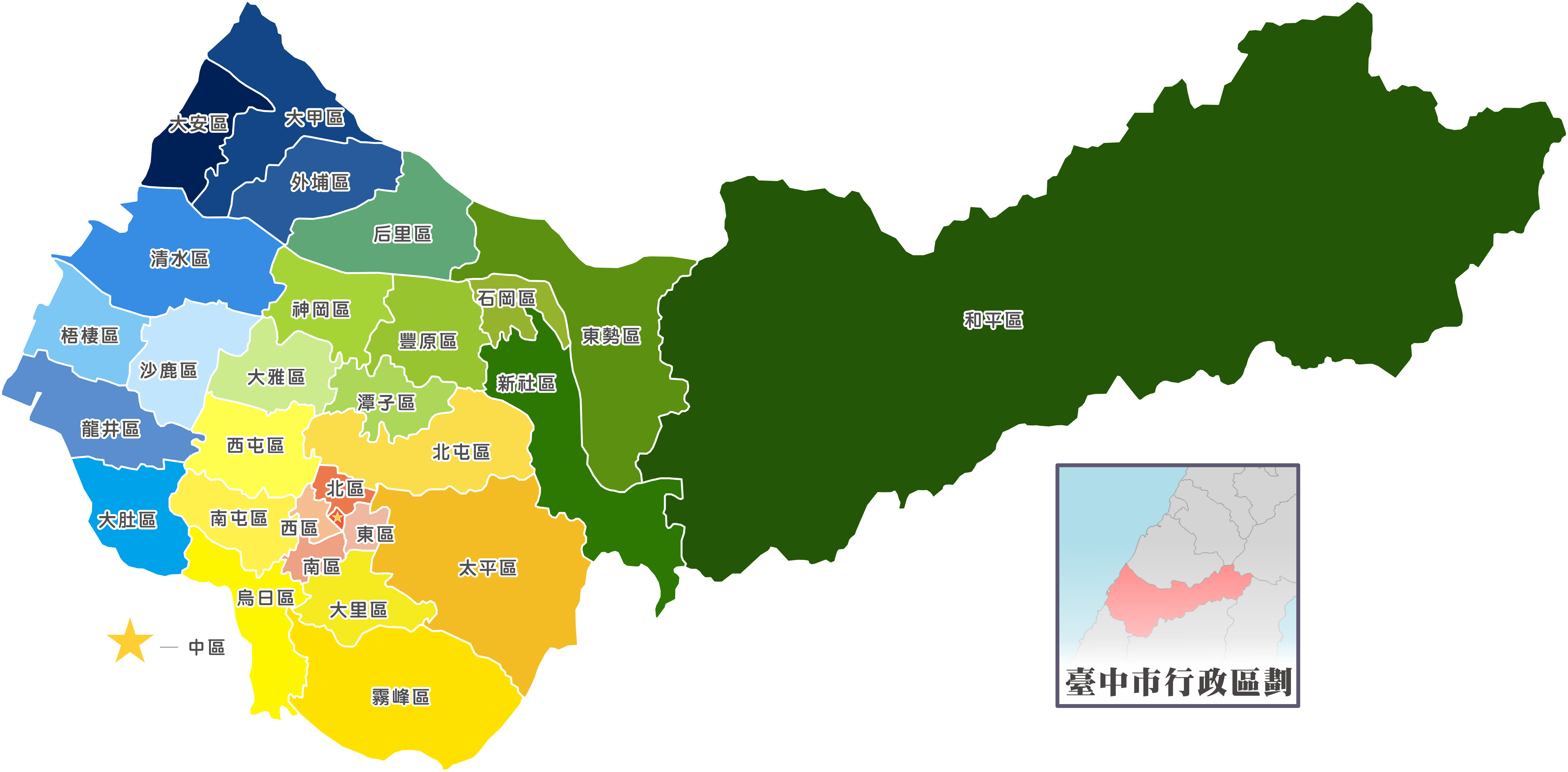 Taichung City District